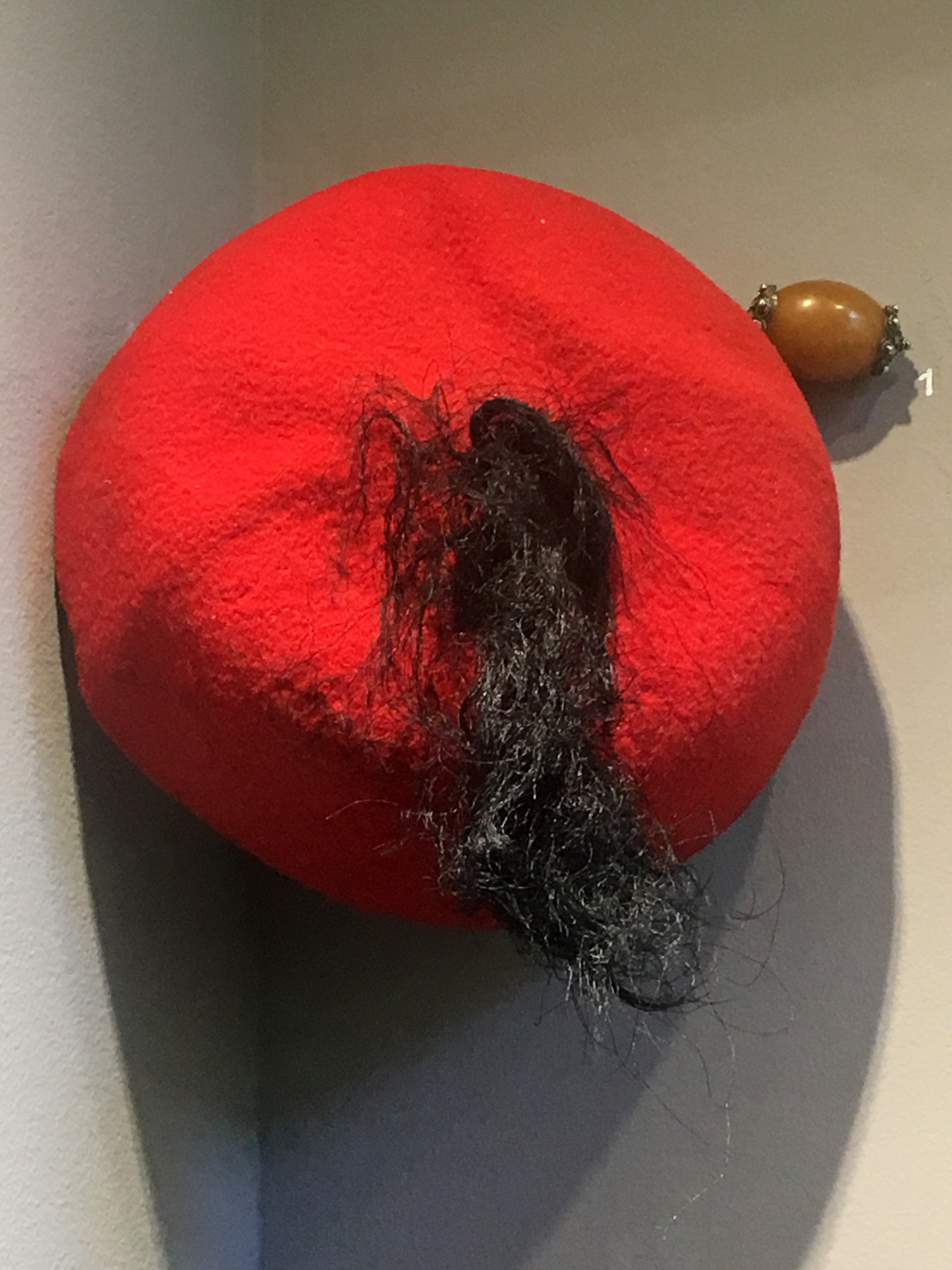 Women's hat with ornamental tassels.